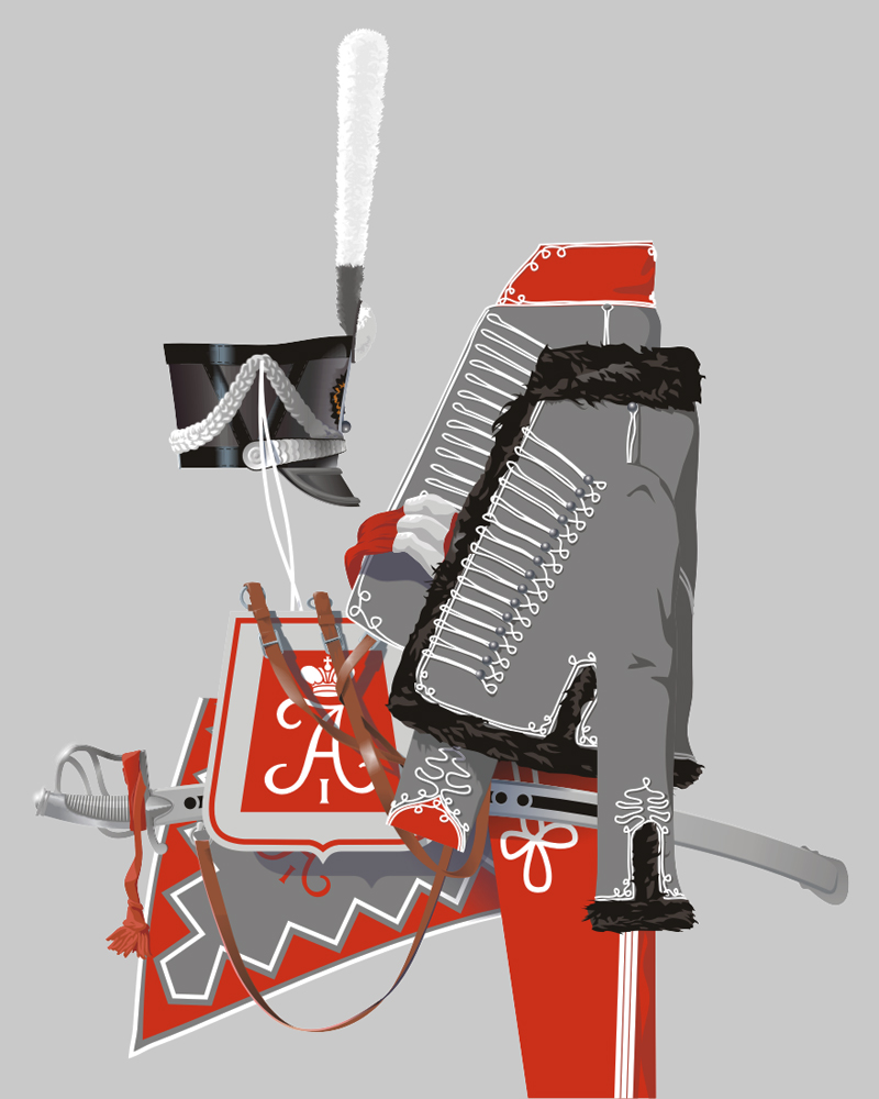 Trooper of Sumy Hussar regiment’s full dress: dolman, pelisse, barrel sash, breeches, shako (here of 1812), shabraque, sabretache & sabre. Russian army of 1812